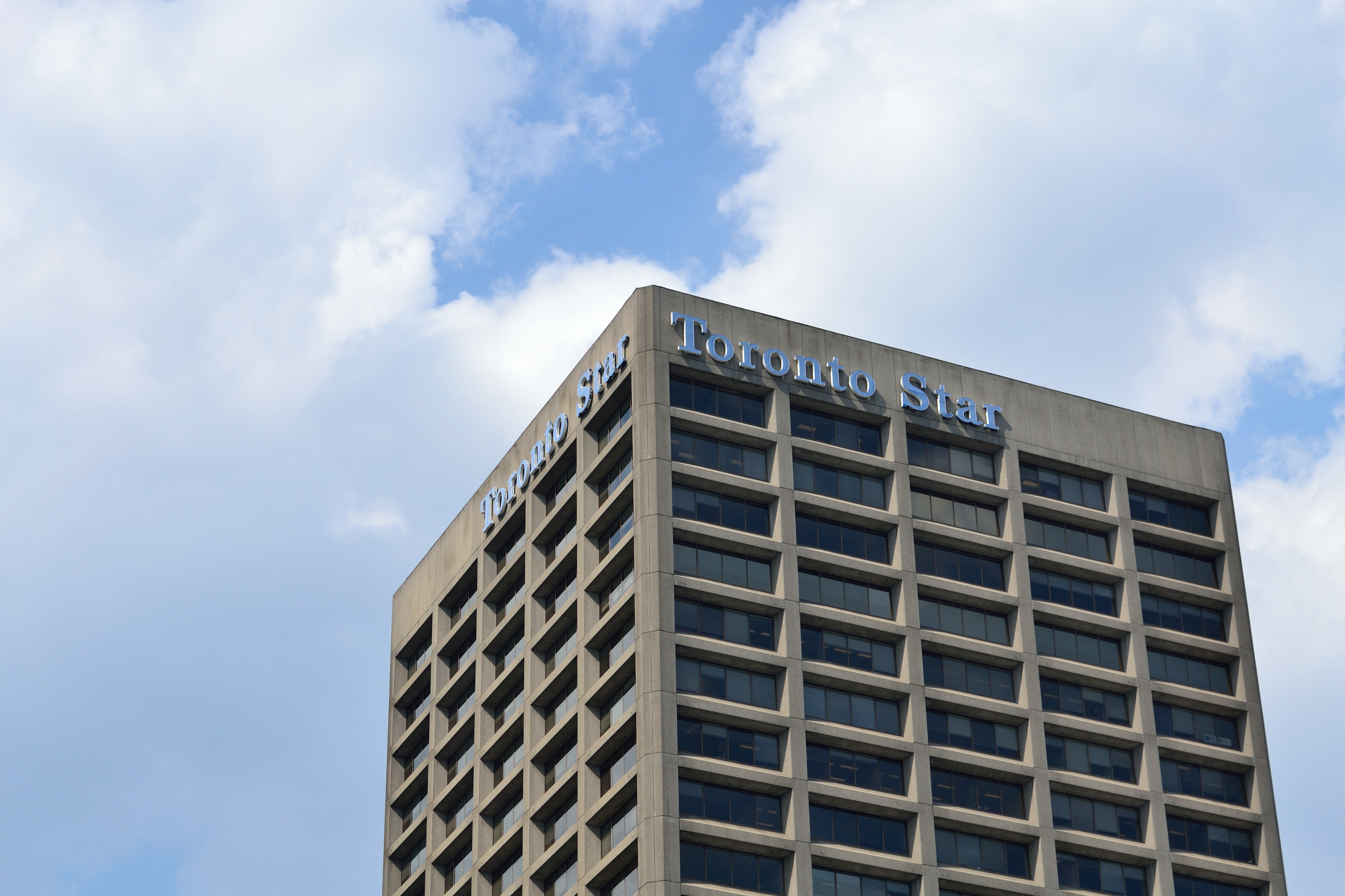 Toronto Star - One Yonge Street